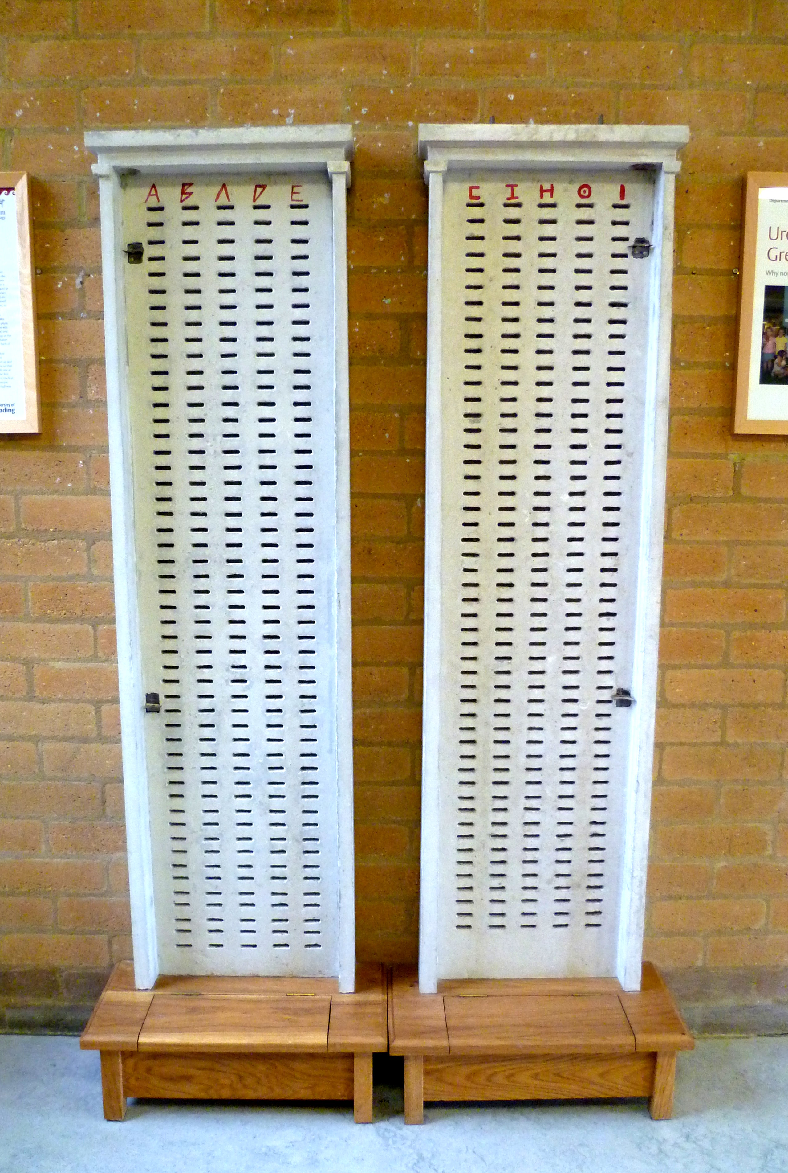 Reconstructed Kleroterions in the Ure Museum of Greek Archaeology.